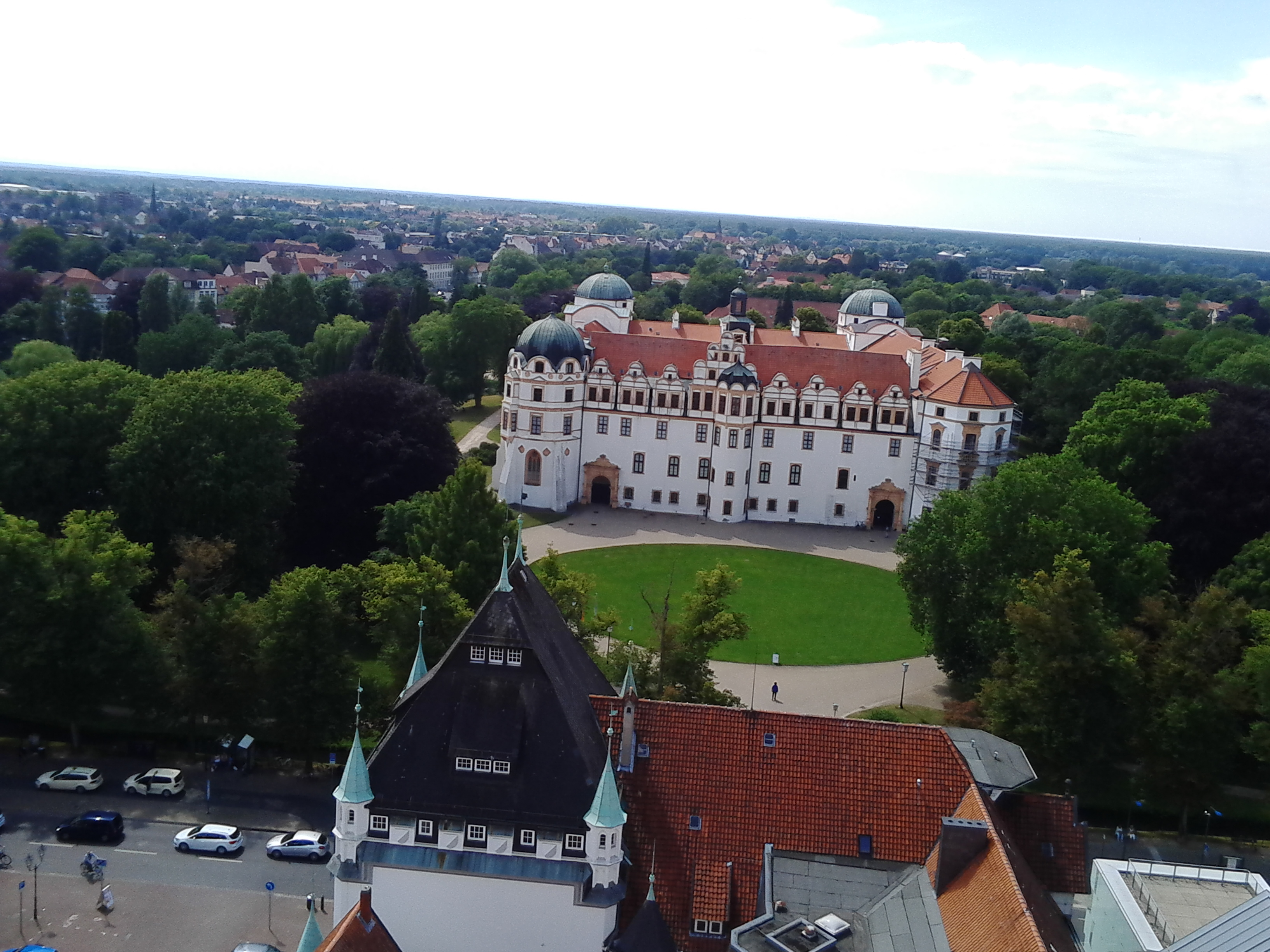 Celle Castle and surroundings